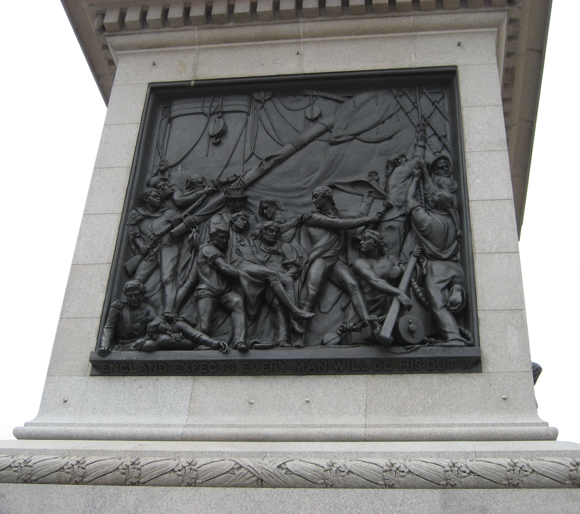 "England expects every man will do his duty" Pedestal at Nelson's Column, Trafalgar Square, London, UK